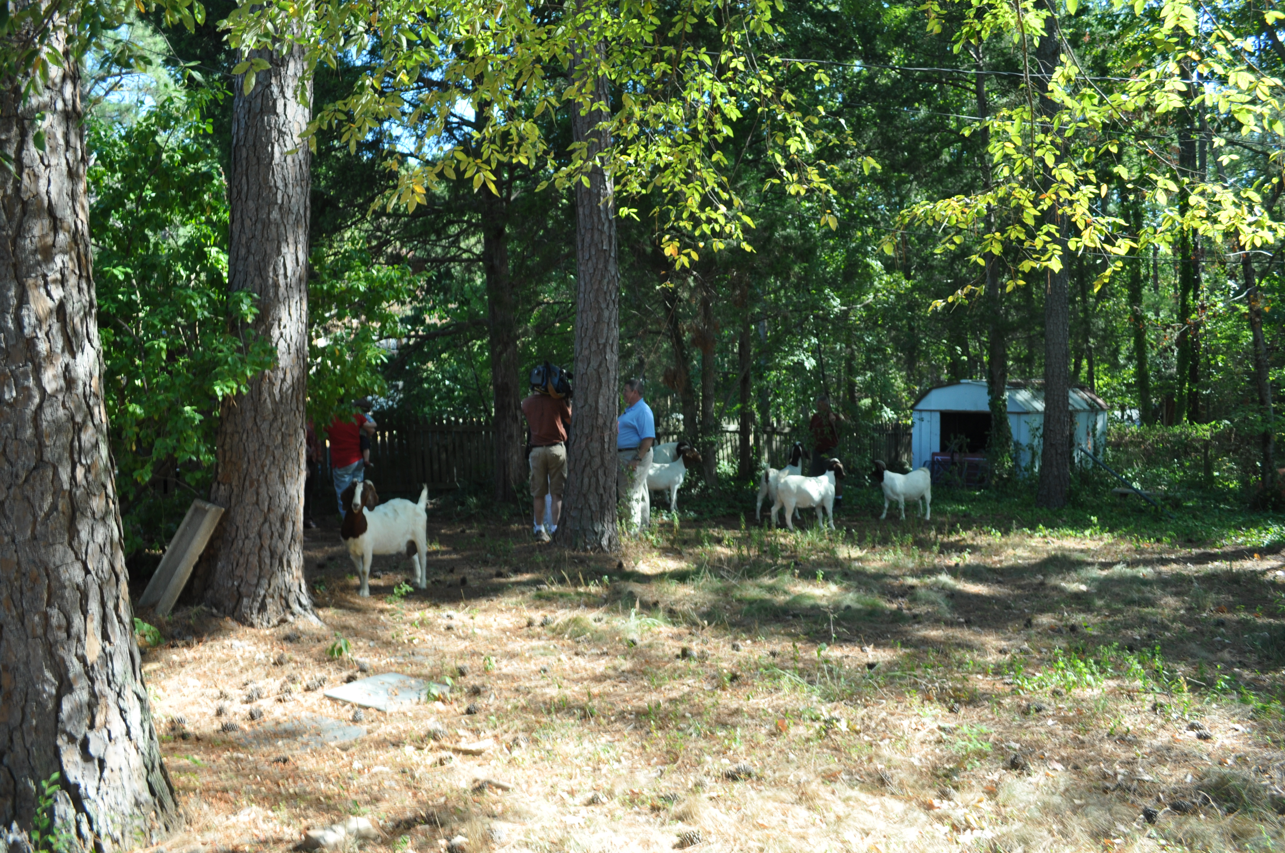 Goat Grazing, RentAGoat